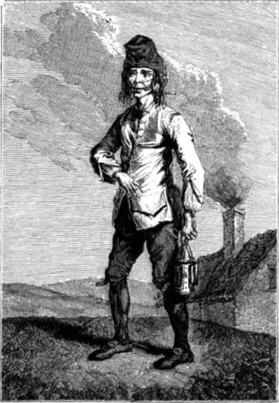 French actor Volanges as Janot, an 18th-Century French theatrical character type.